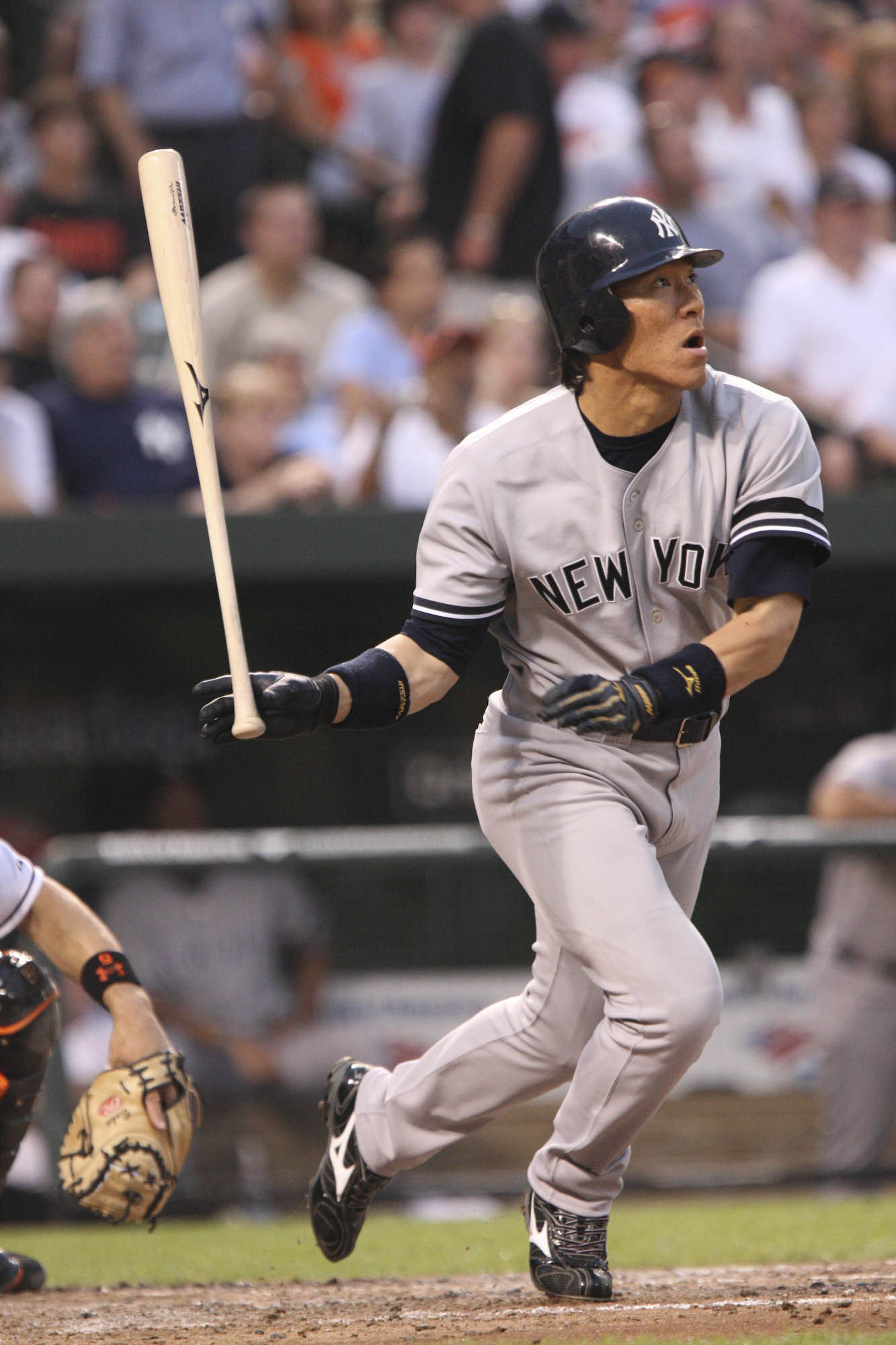 Hideki Matsui Reprint from Flickr